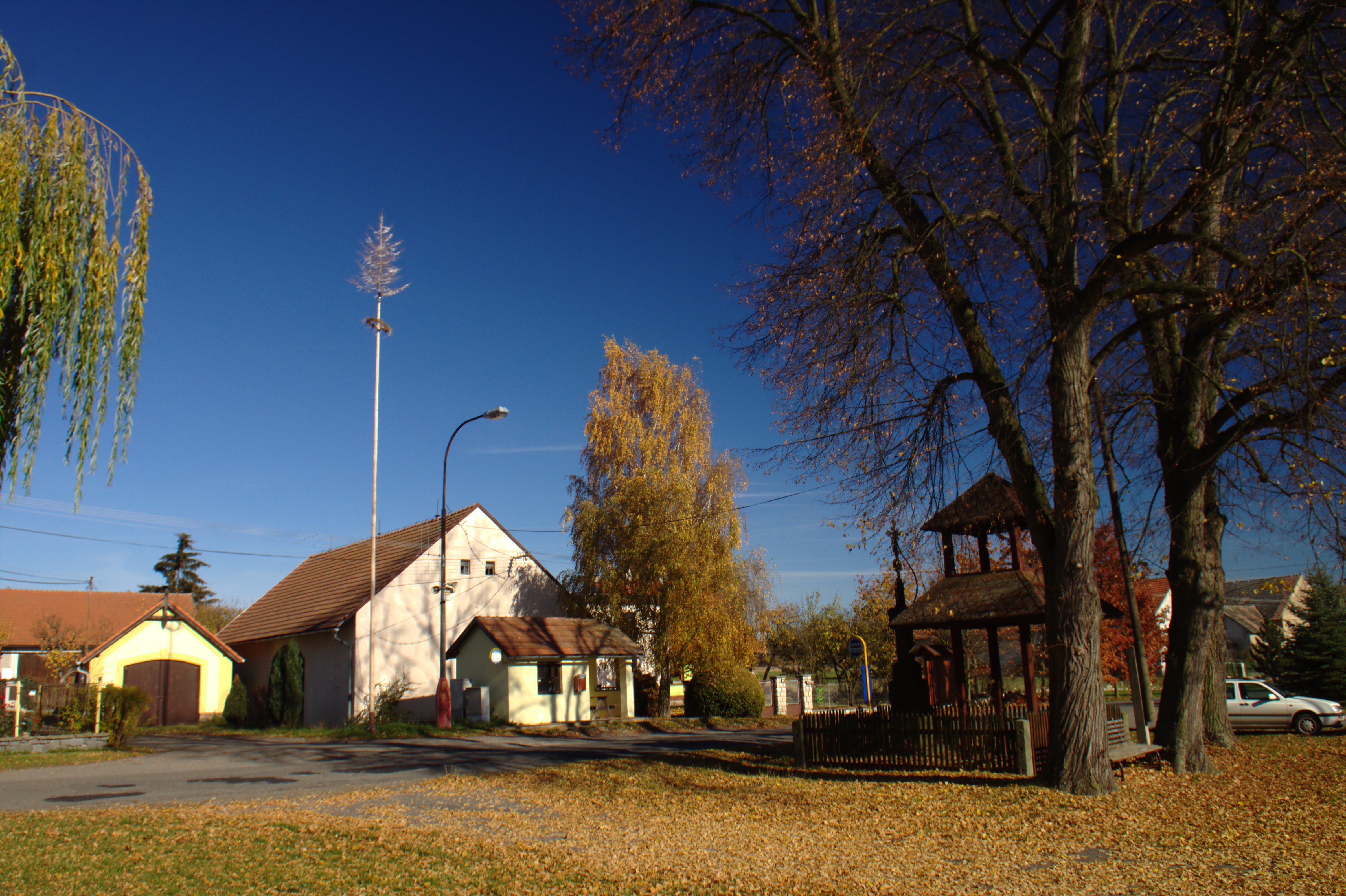 A common in the village of Bor near Březnice, Central Bohemia, CZ